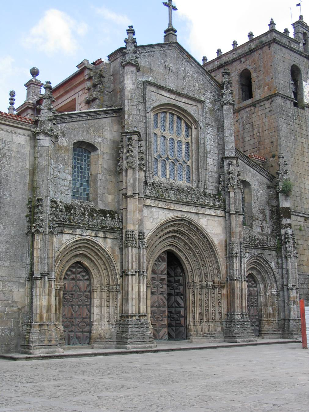 Catedral de Lamego, Portugal/Cathedral of Lamego, Portugal